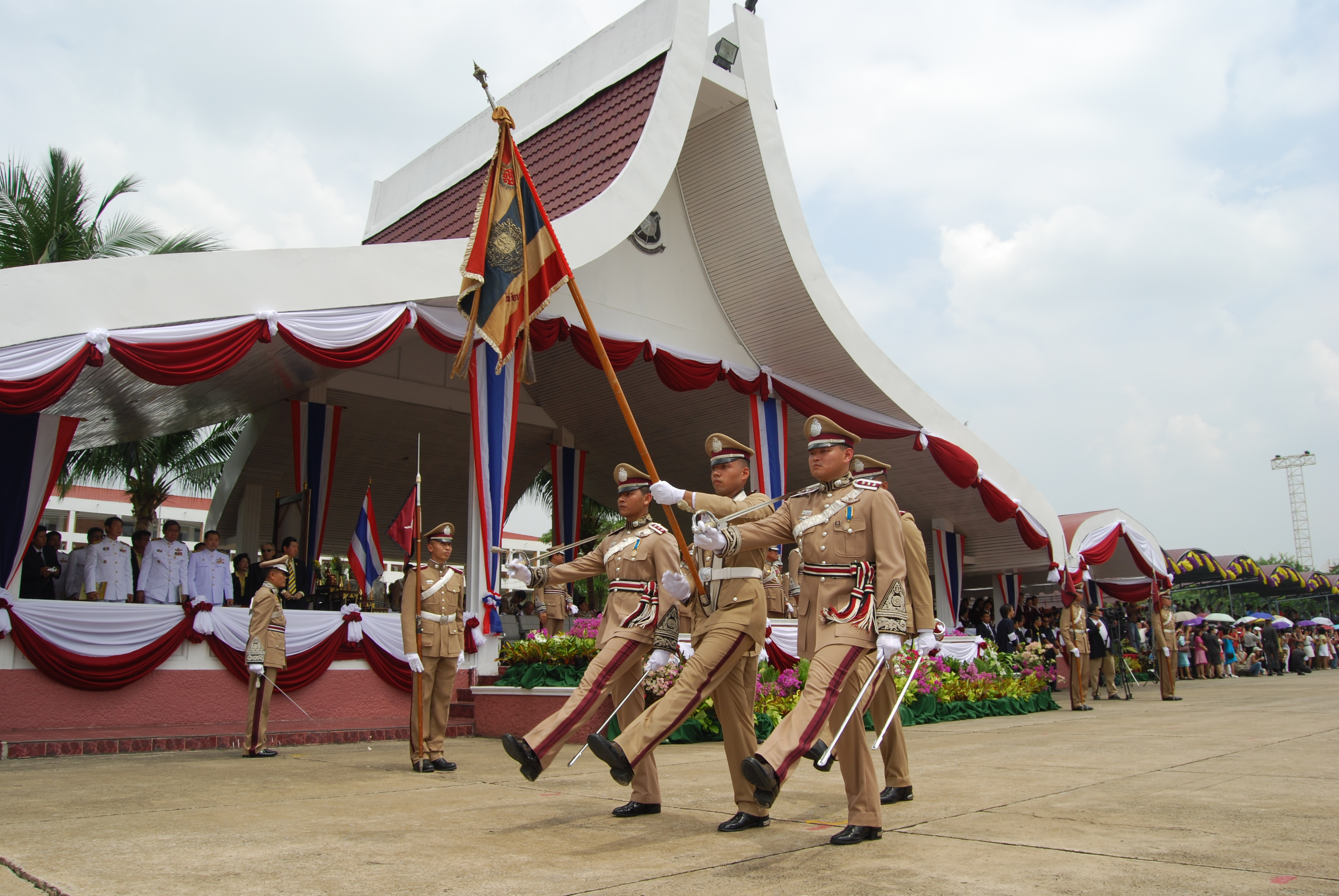 Police Colours of the Royal Police Cadet Academy